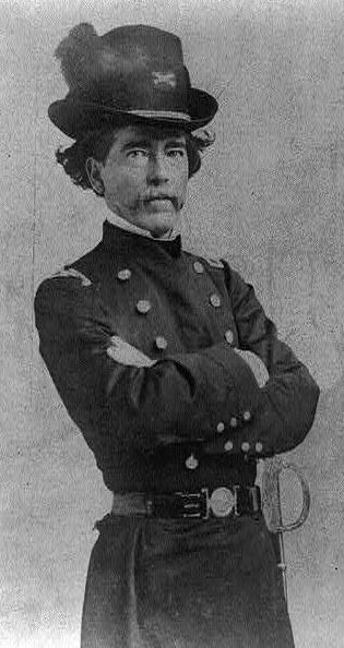 Paul Octave Hébert (1818–1880), Governor of Louisiana and General in the Confederate Army. Photographic print.